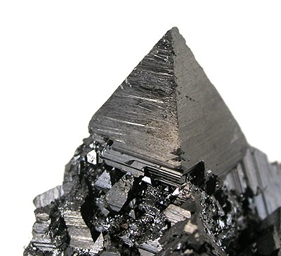 Hausmannite Locality: Wessels Mine (Wessel's Mine), Hotazel, Kalahari manganese fields, Northern Cape Province, South Africa (Locality at ) Size: thumbnail, 3.1 x 2.7 x 2.0 cm Hausmannite SHARP, very equant, mirror-lustrous cluster of the highest quality!